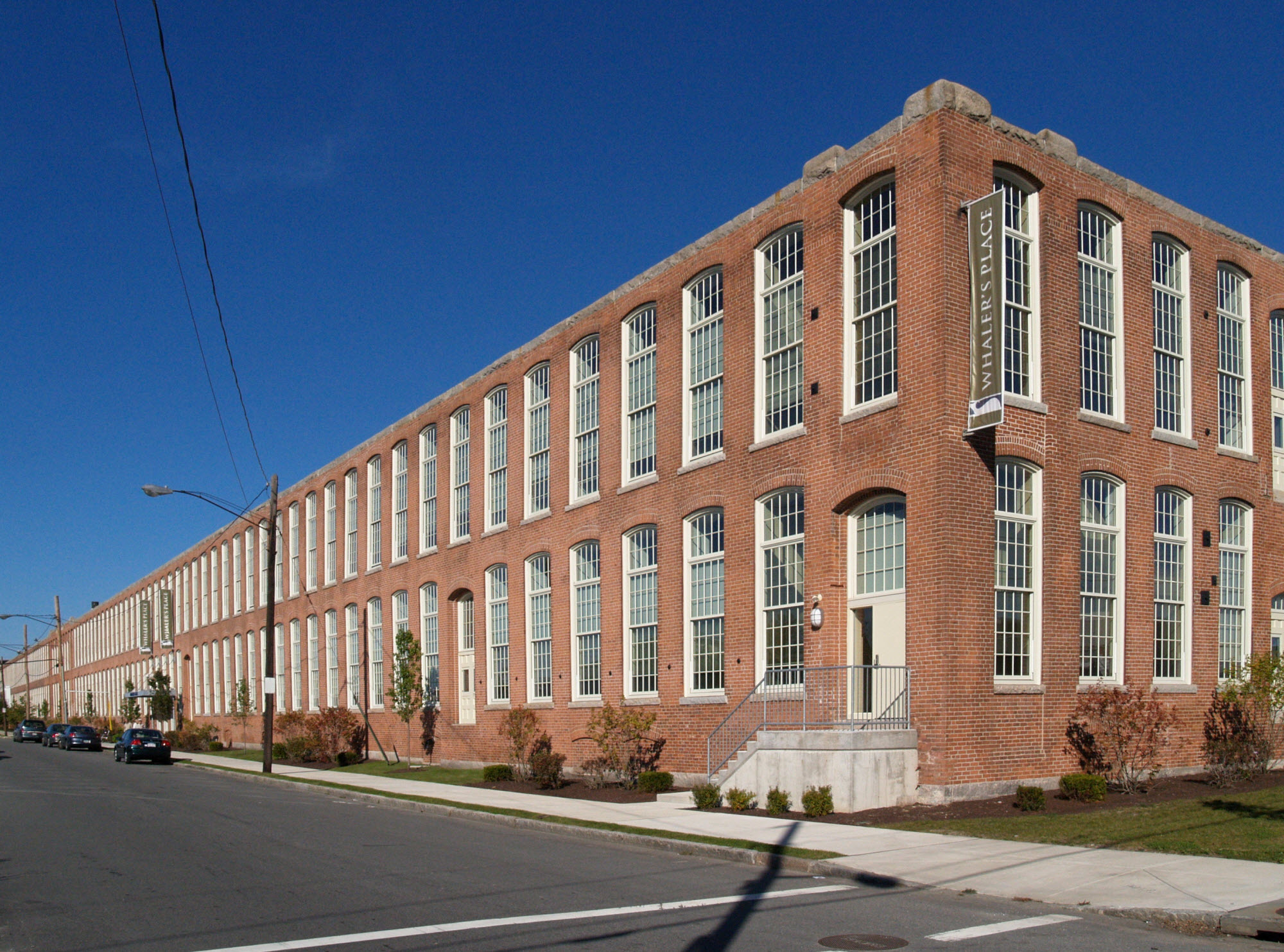 Whitman Mills, New Bedford, Massachusetts (now Whaler's Cove & Whaler's Place)